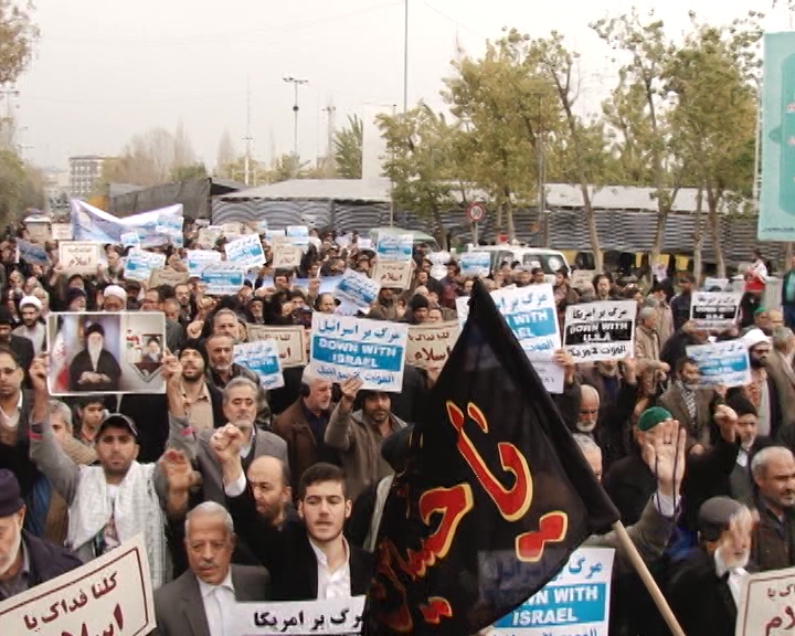 Iranian demonstration for condemning Zaria Shia massacre